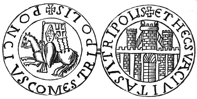 Pons of Tripoli